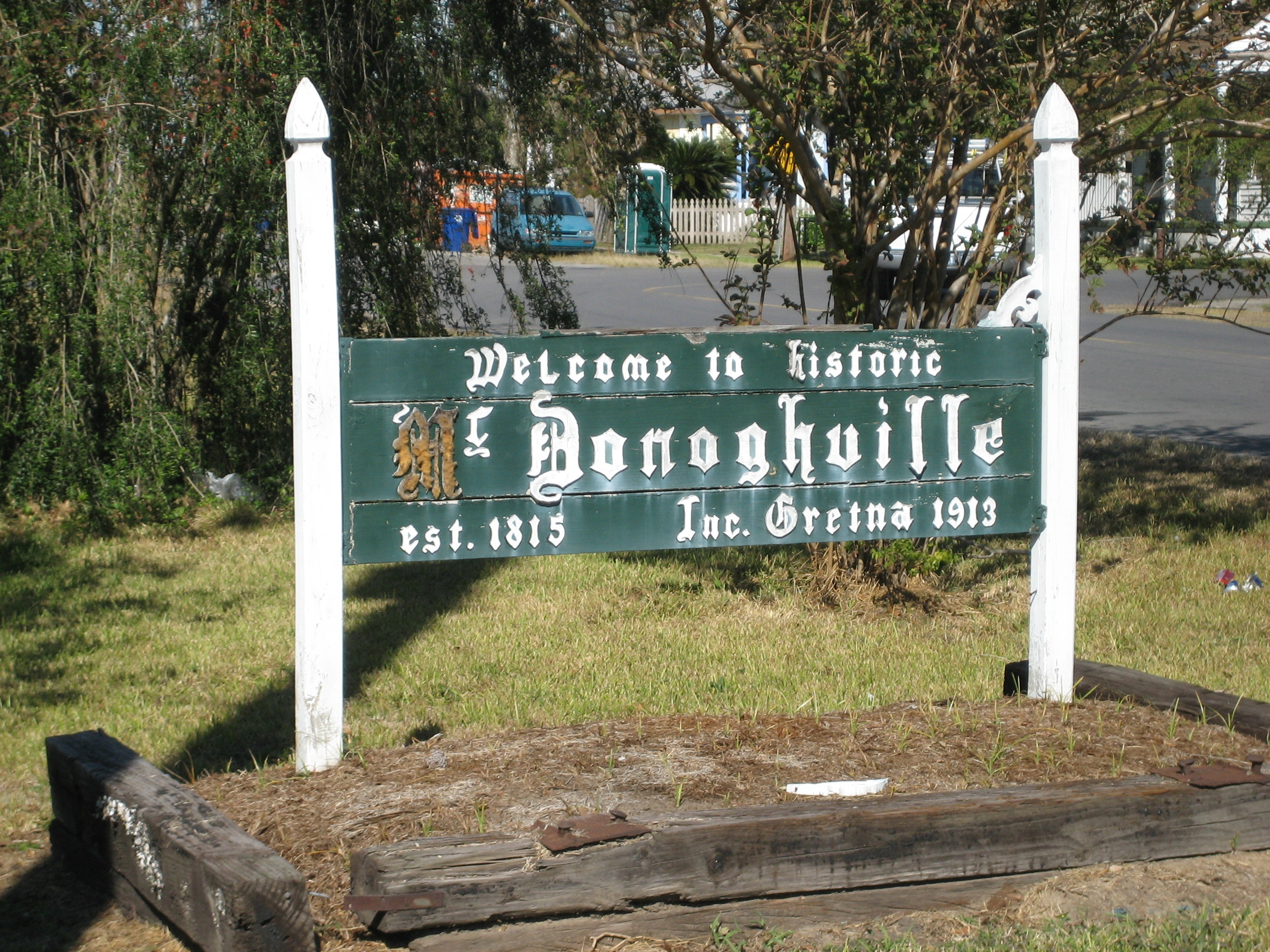 Gretna, Louisiana:sign marking boundy of old McDonoughville